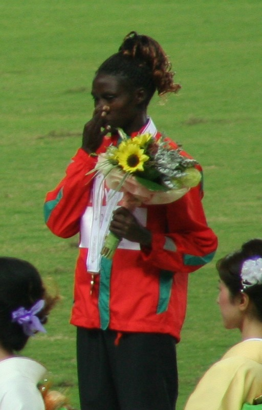 World Athletics Championships 2007 in Osaka - Eunice Jepkorir at the Victory Ceremony for Women's 3000 metres steeplechase